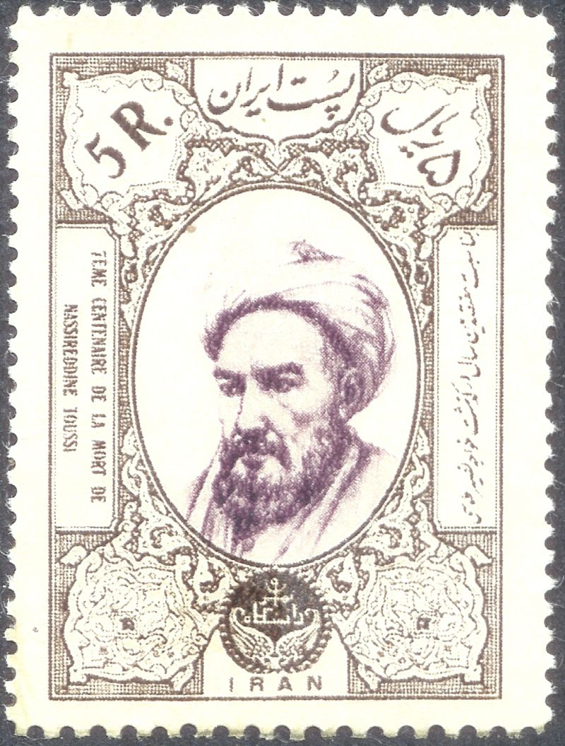 Stamp issued in 1976 by Iran picturing Nasir al-Din Tusi, astronomer